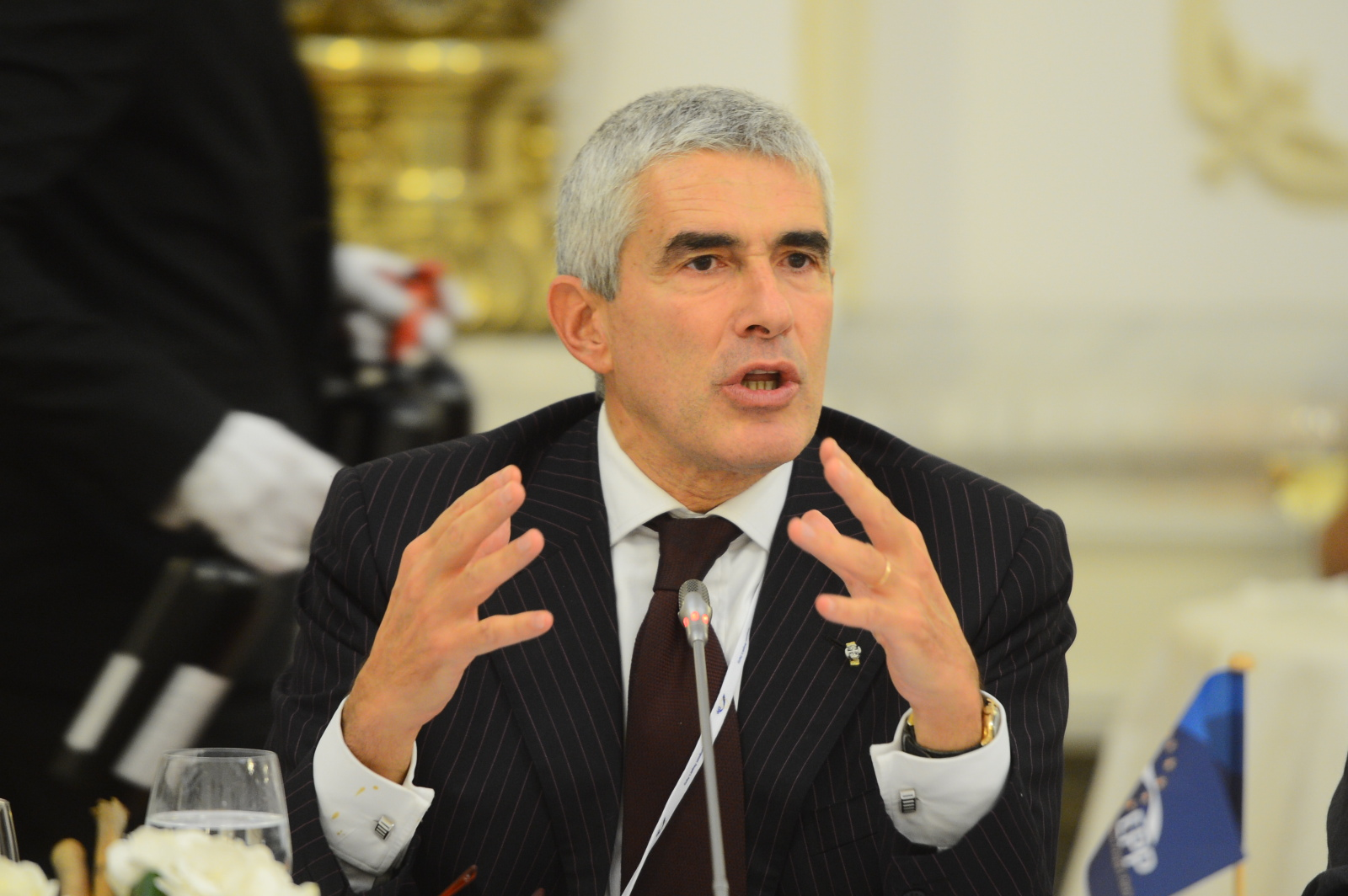 EPP_Congress_5125